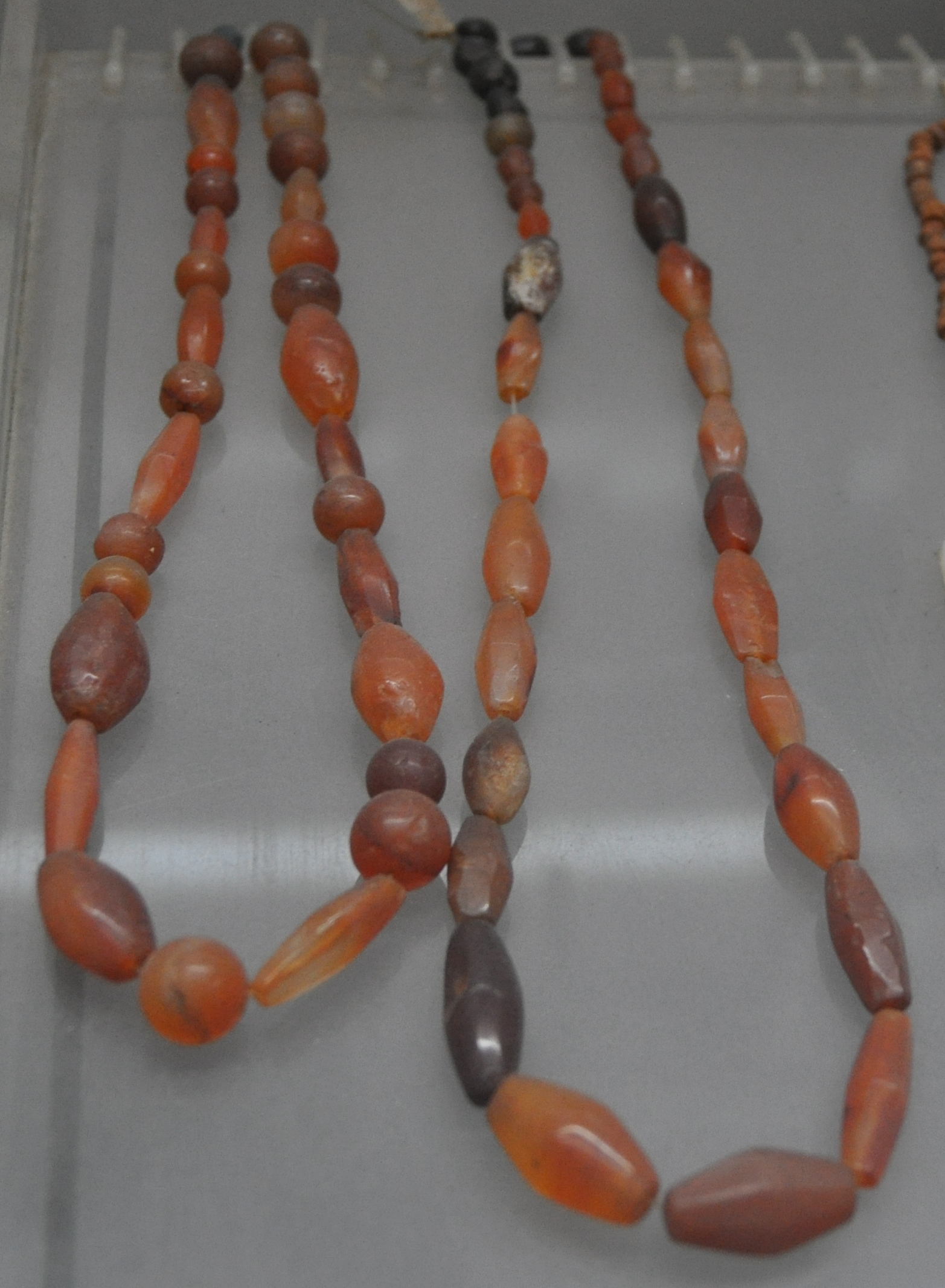 Bead(Agate), Artefacts of Phu Hoa site(Dong Nai province), Collections of the Museum of Vietnamese History Circa 3,000 years ago